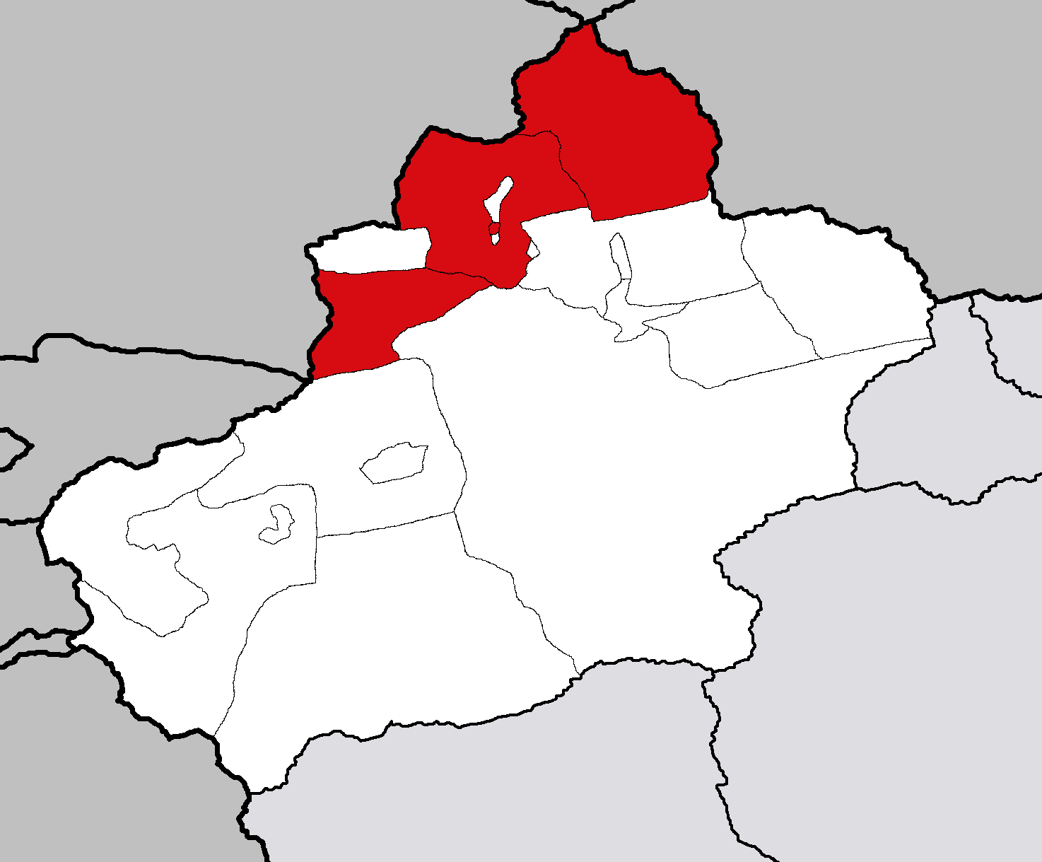 Maps of Xinjiang Uygur Autonomous Region of China